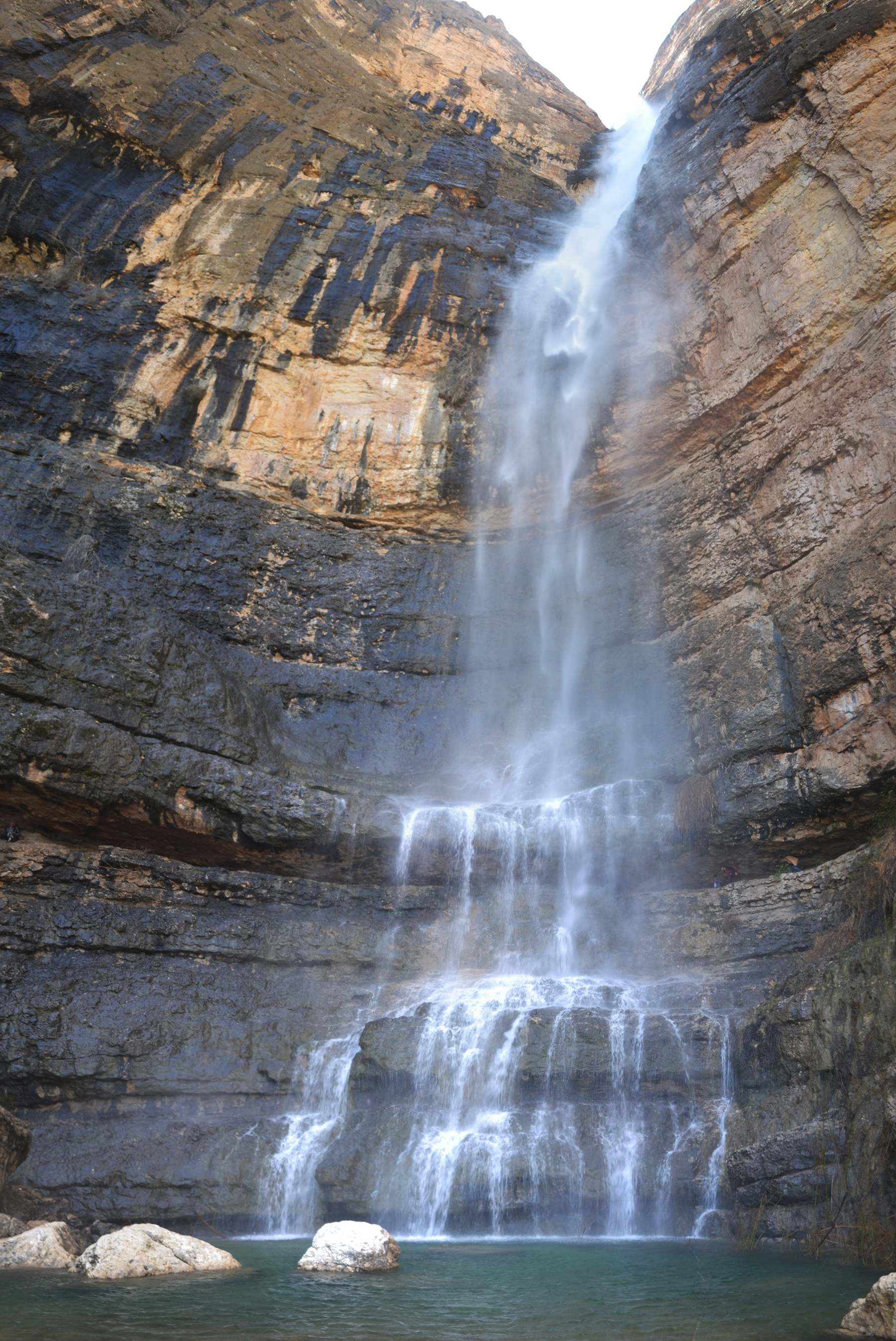 Tarom water fall, Fars Province, Iran